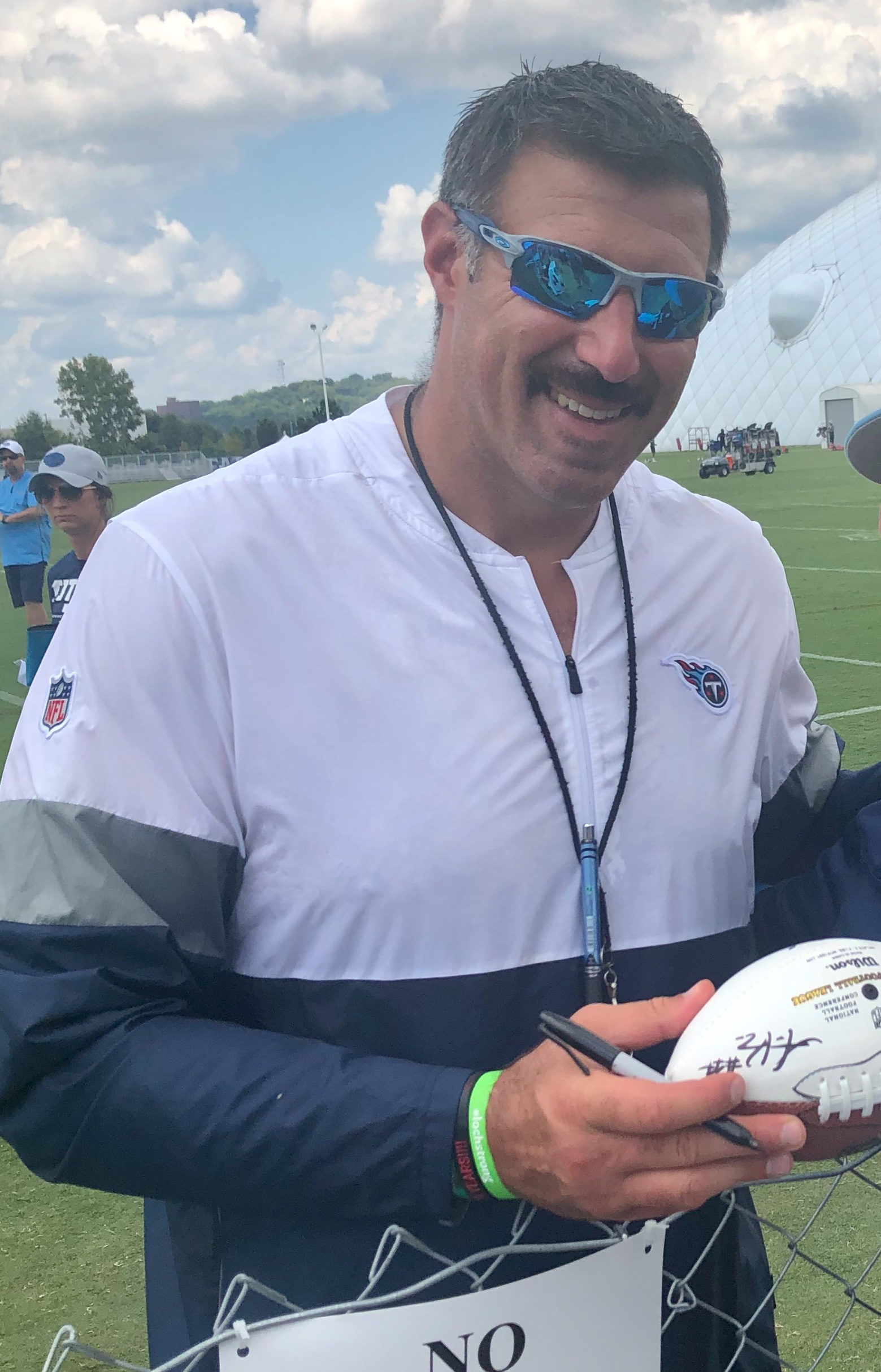 Tennessee Titans head coach Mike Vrabel at practice in Nashville, Tennessee on August 2, 2019.